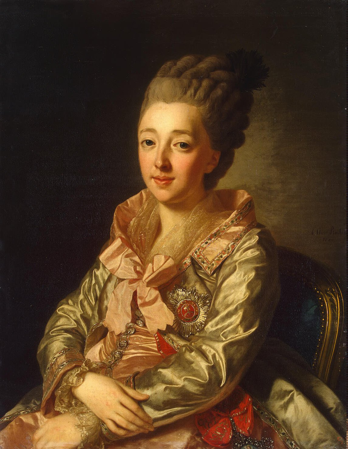 Grand Duchess Natalia Alexeievna of Russia, 1755-1776, daughter of Louis IX Landgrave of Hesse-Darmstadt, wife of HIH the Grand Duke Paul Petrovich of Russia, later Emperor Paul I of Russia